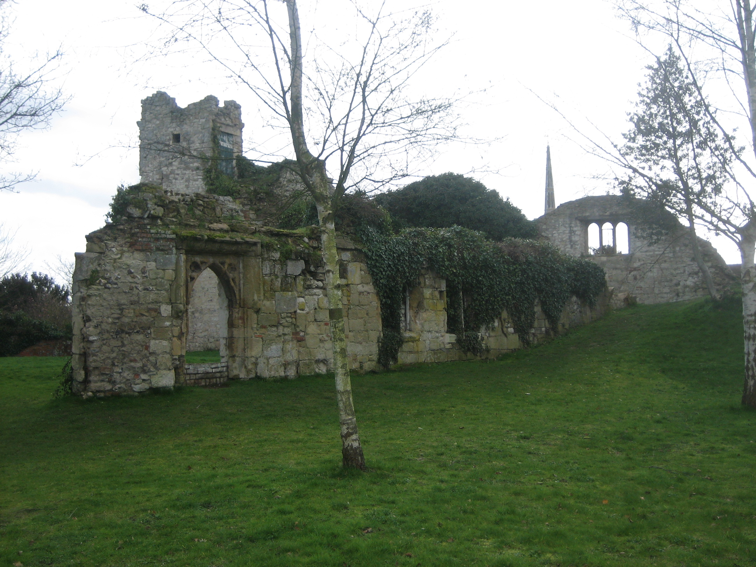 Ruin of the collegiate church of St Nicholas, Wallingford Castle, Oxfordshire (formerly Berkshire)